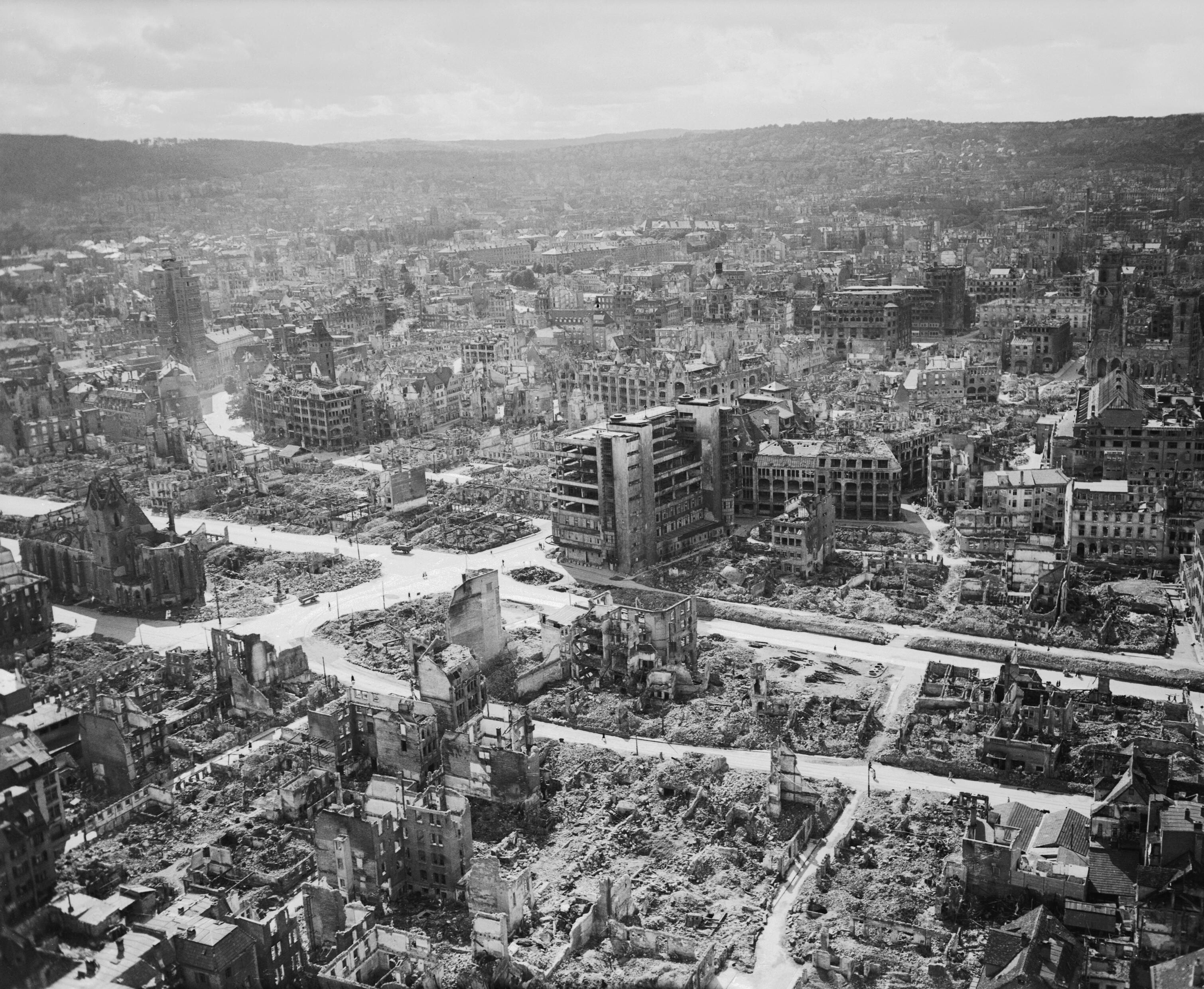 Royal Air Force Bomber Command, 1942-1945. Low-level aerial photograph of the devastated city centre of Stuttgart from the east, ca. 1945. Original description: Low-level aerial photograph of the devastated city centre of Stuttgart from the south-west, after 53 major raids, most of them by Bomber Command, destroyed nearly 68 percent of its built-up area and killed 4,562 people.